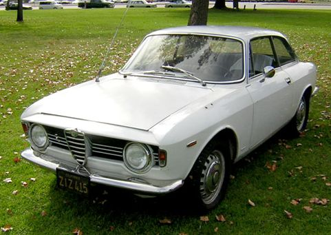 1967 Giulia Sprint GT Veloce